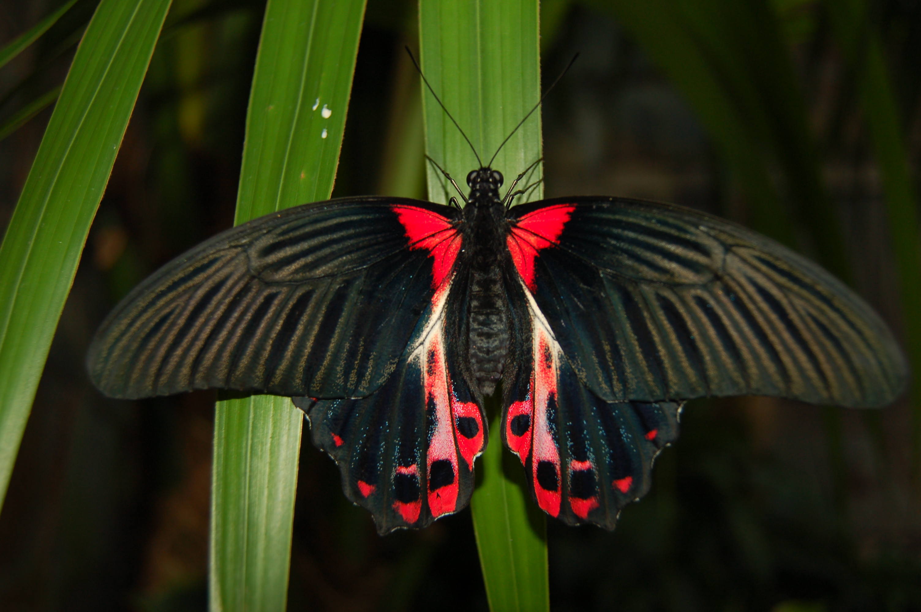 As far as I'm aware, this is the Scarlet Mormon butterfly (Papilo rumanzovia). This was snapped at the Mariposario de Drago in Tenerife.